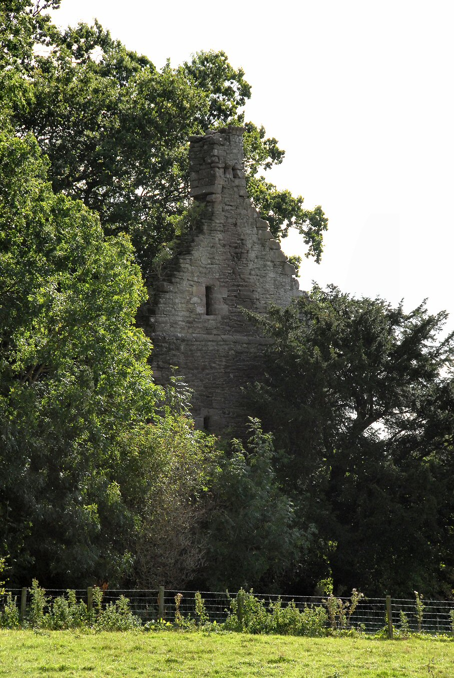 The ruins of Inchaffray Abbey, Perthshire, Scotland.